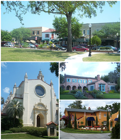 A collage of photos taken by Ebyabe in Winter Park, Florida